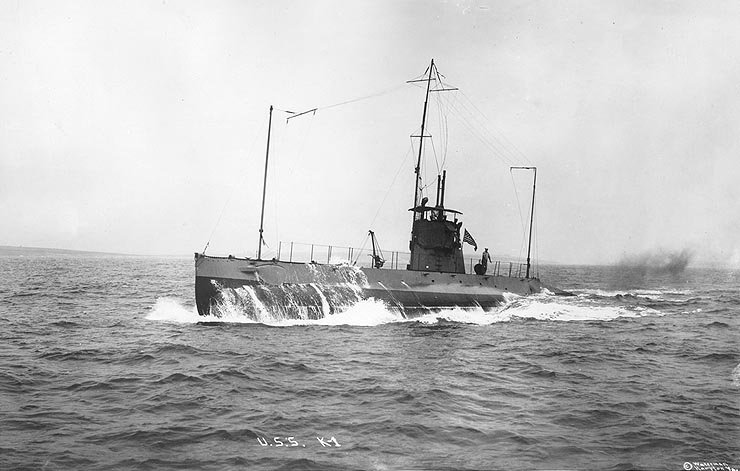 USS K-1 (Submarine # 32) underway, circa 1916. Photographed by O.W. Waterman, Hampton, Virginia. Original caption: “Photo # NH 99399 USS K-1 underway, circa 1916” — removed caption